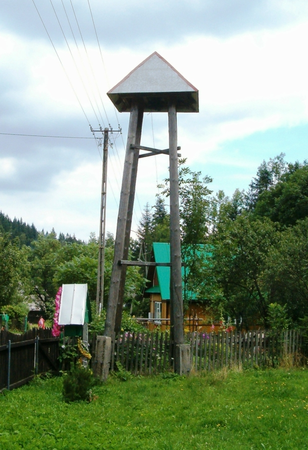 Dzwonnica Loretańska w Zawoi